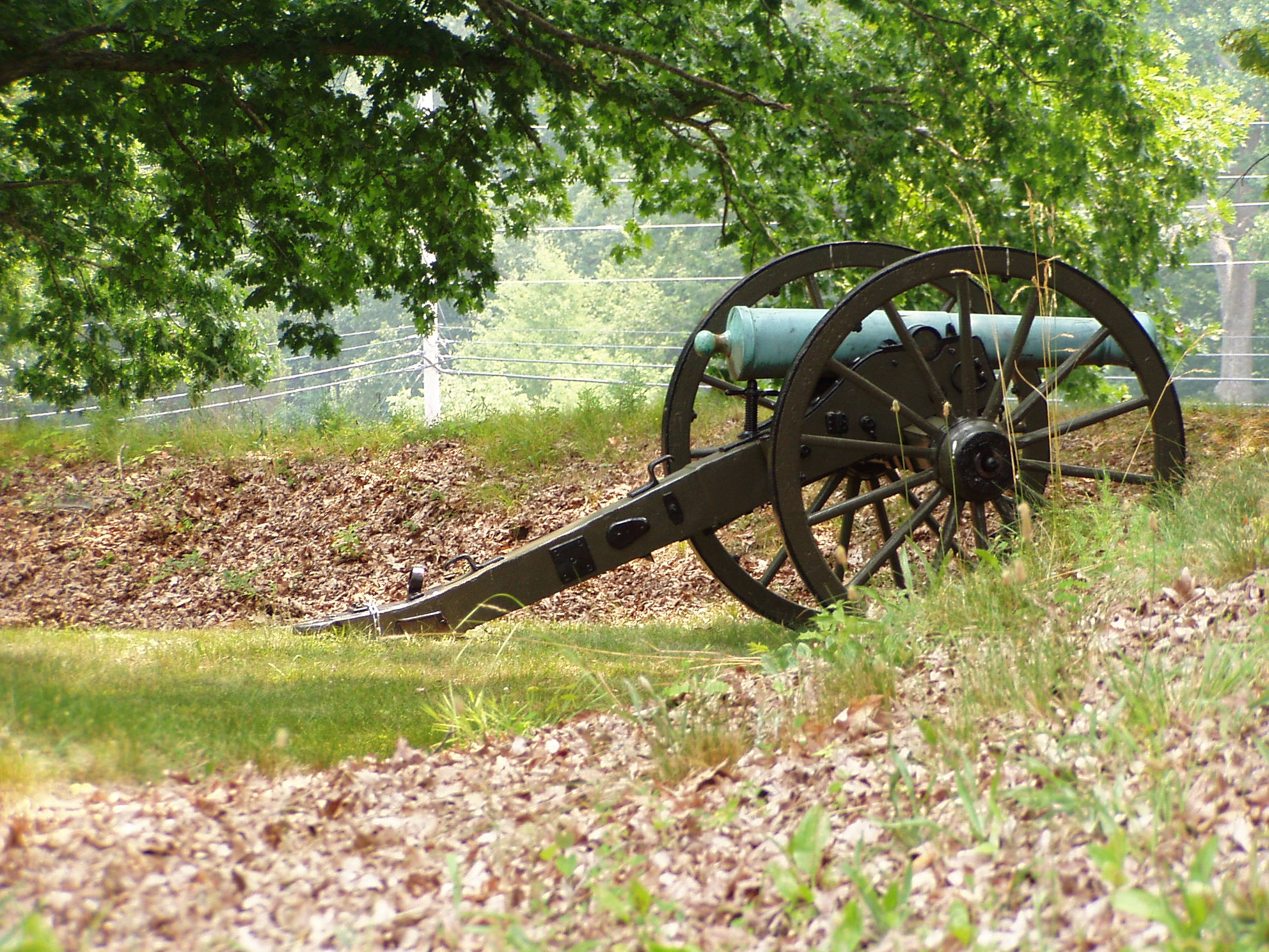 Earthen Ramparts of Fort Donelson National Battlefield, Stop #5